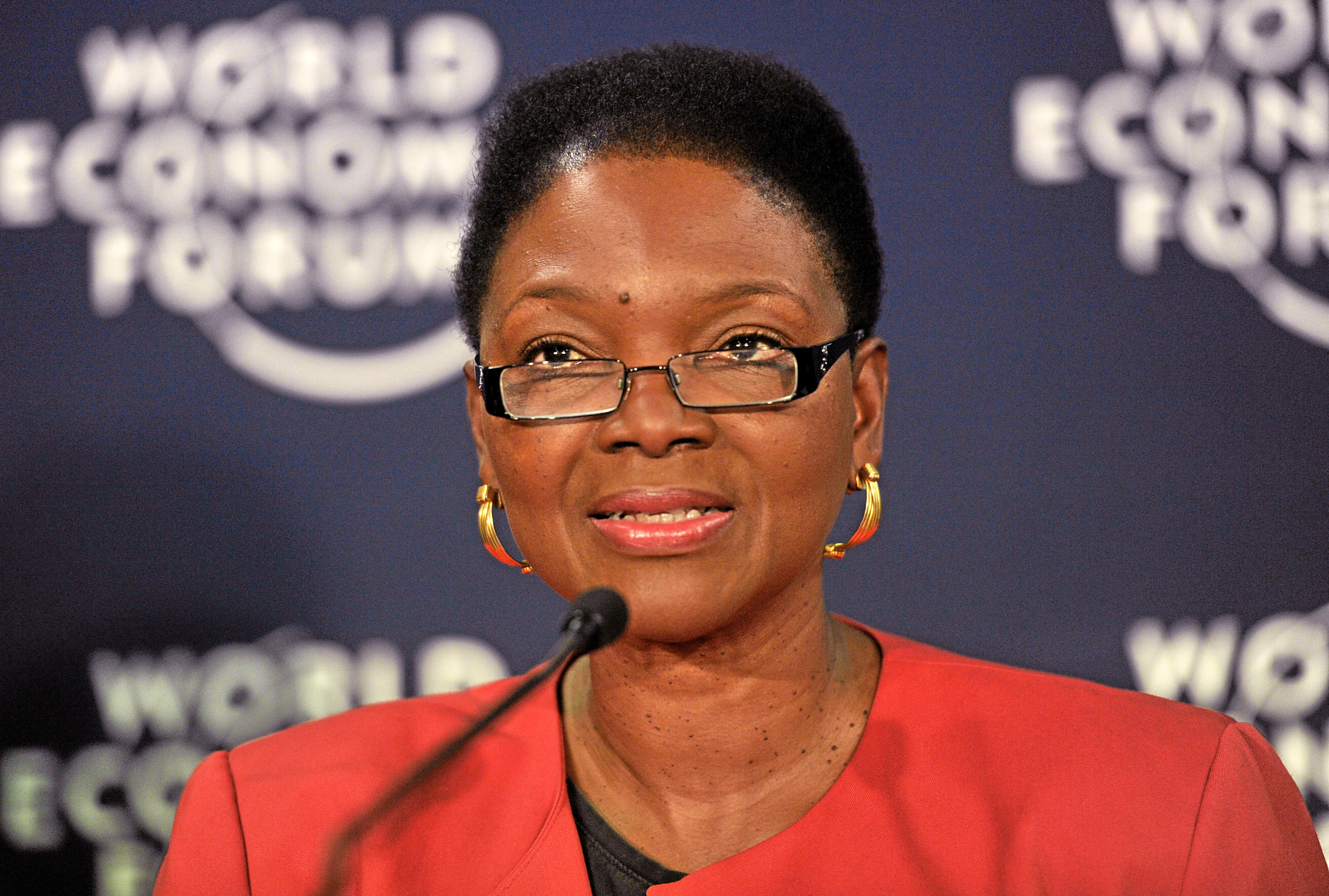 DAVOS/SWITZERLAND, 23JAN13 - Baroness Valerie Amos, Undersecretary-General for Humanitarian Affairs and Emergency Relief Coordinator, United Nations, New York, speaks during the press conference 'Syria - two years into the crisis: what has become of the Syrian people?' at the Annual Meeting 2013 of the World Economic Forum in Davos, Switzerland, January 23, 2013.. . Copyright by World Economic Forum. . Urs Jaudas